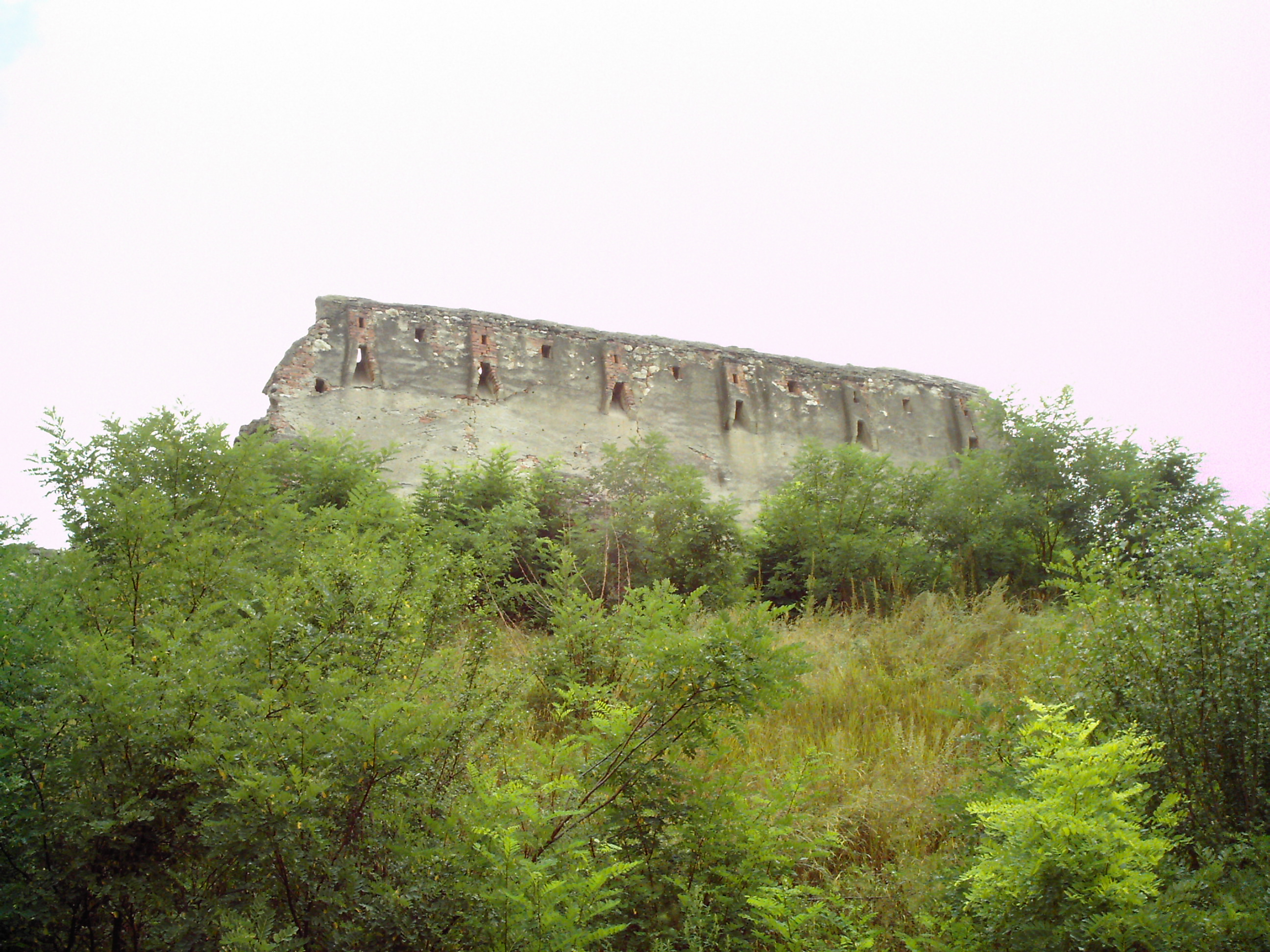 Ruines of the citadel in Feldioara, Romania; curtain wall